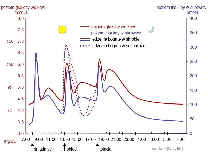 Idealized curves of human blood glucose and insulin concentrations during the course of a day containing three meals; in addition, effect of sugar-rich meal is highlighted.